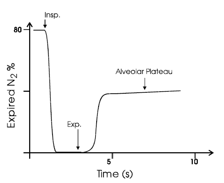 ft6go7uy